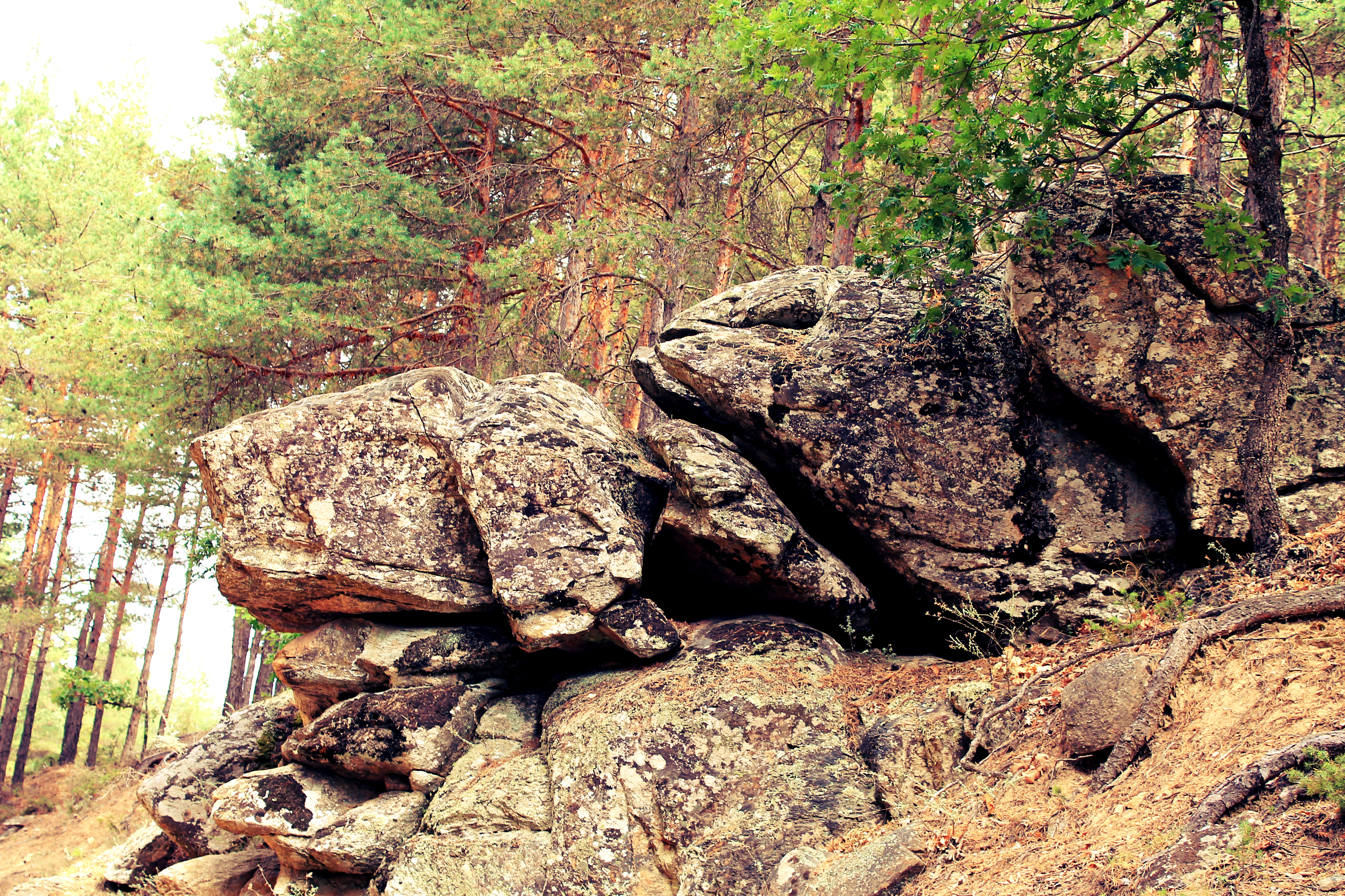 Skribina_12